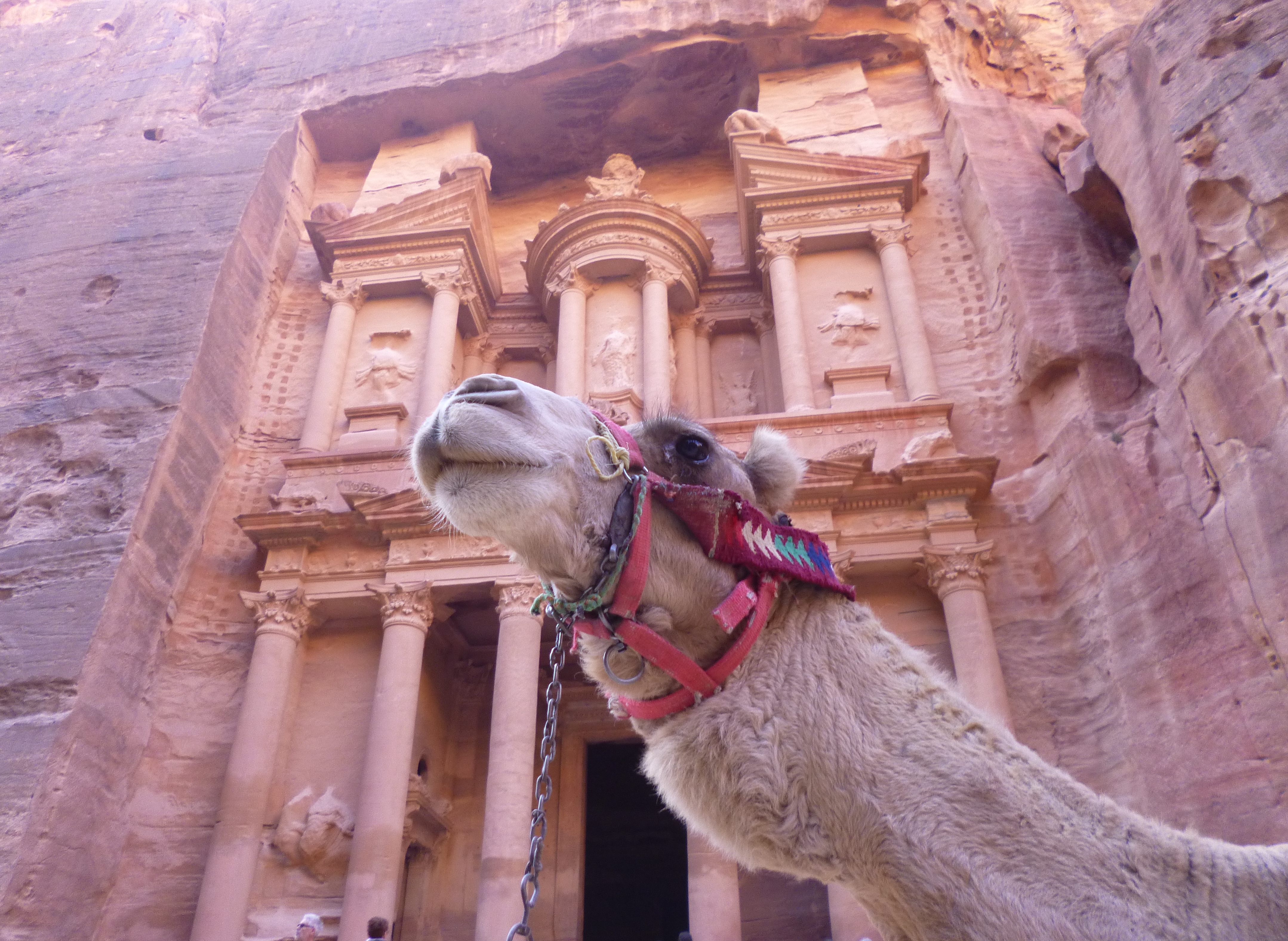 A camel by El Khasneh in Petra (Jordan)